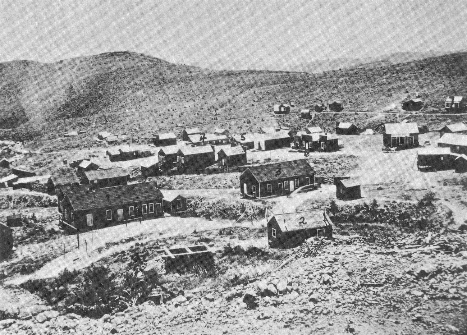 Total Wreck, circa 1885. Visible are the dining room (1), assay office (2), miners lodging house (3), general lodging house (4), saloon (5), butcher shop (6), and a private residence (7).